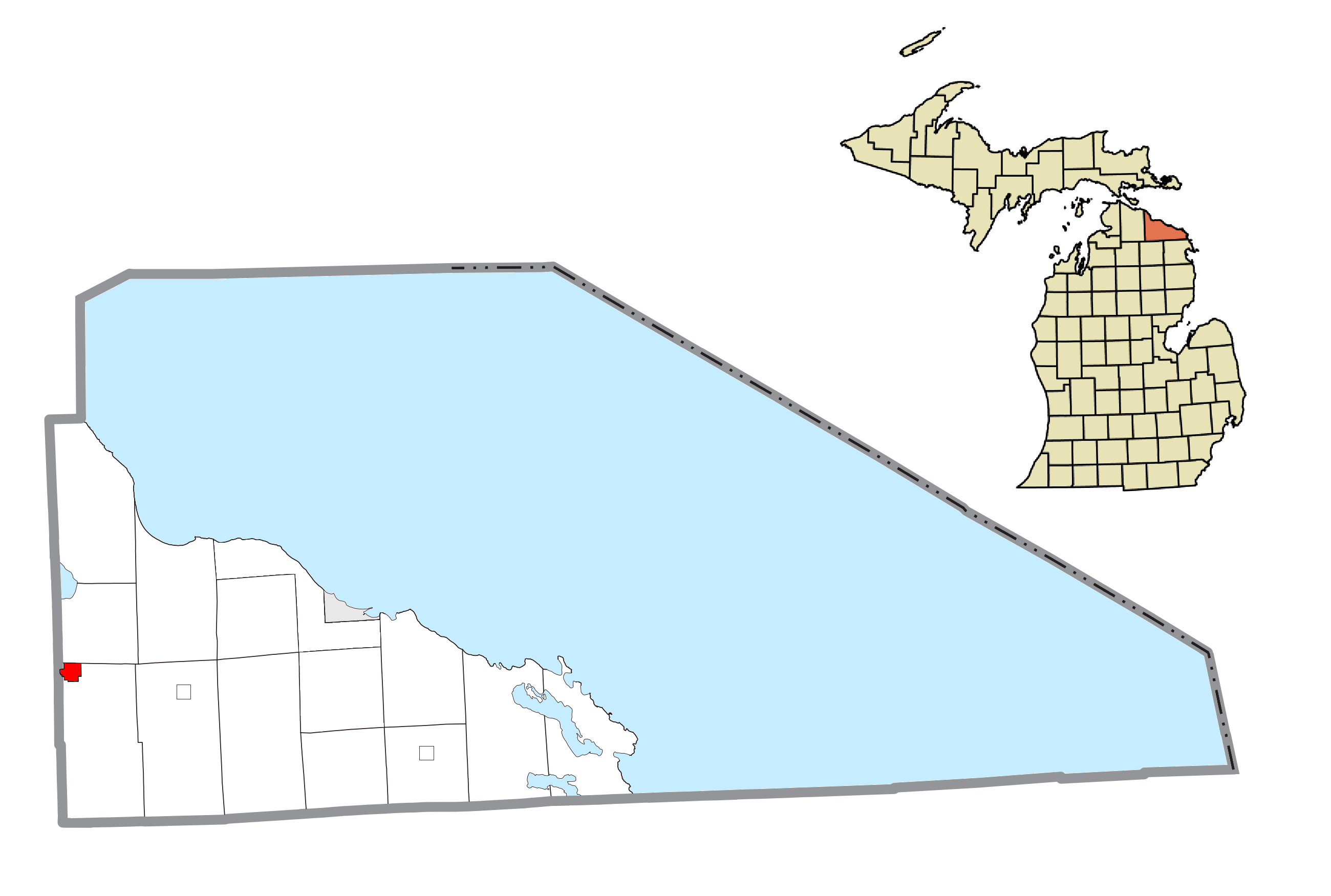 Onaway, MI